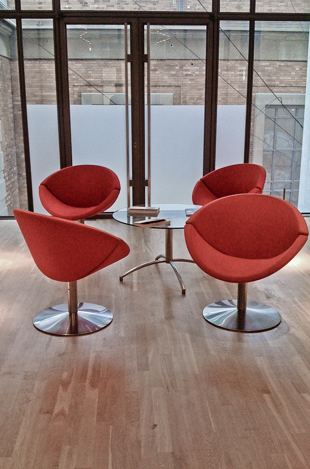 Foersom and Hiort-Lorenzen's Apollo chair at Statens Museum for Kunst (Danish National Gallery)